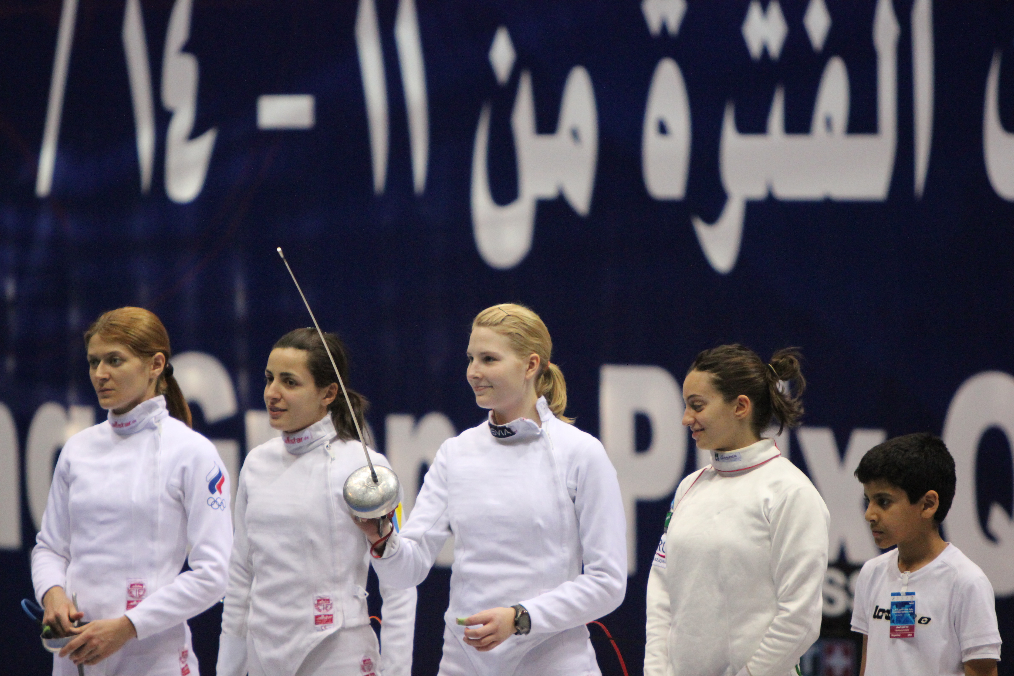 Doha Grand Prix 2011 (left to right: Anna Sivkova, Yana Shemyakina, Johanna Bergdahl, Rosella Fiamingo)